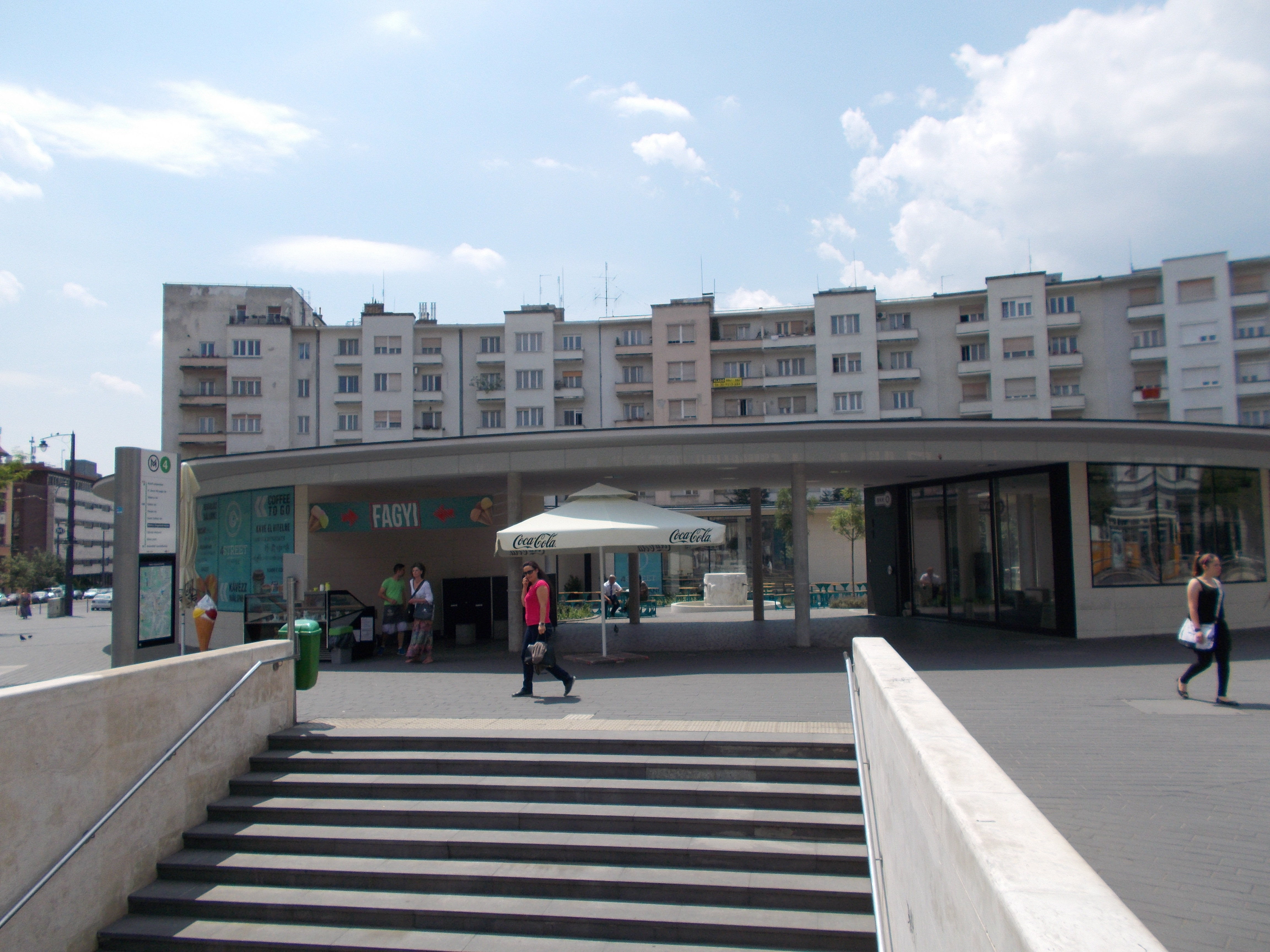 The 'Mushroom', a former suburb rail building (E), listed ID 1109 . Móricz Zsigmond Square' building complex (detail) listed ID 8242.. - Móricz Zsigmond Square (mid part), Szentimreváros, Budapest District XI., Hungary